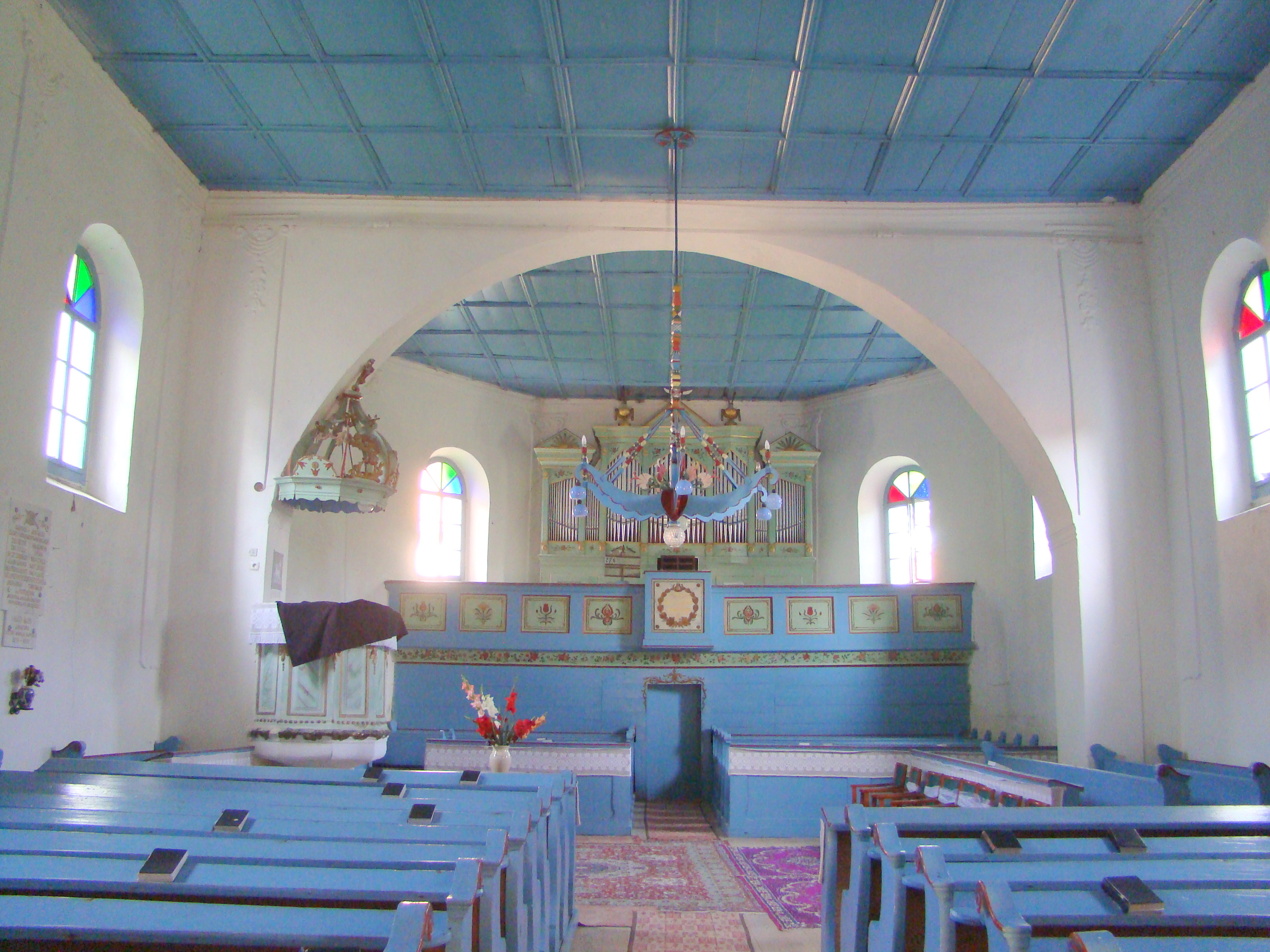 Reformed church in Ulieș, Harghita County, Romania